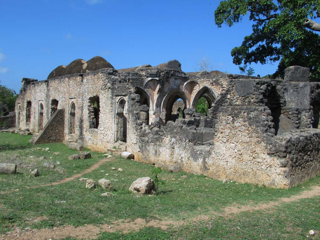 The 15th century Great House next to the Great Mosque at Kilwa Kisiwani, Tanzania, consists of three dwellings each with its own sunken courtyard. Wealthy Swahili merchants or high religious or administrative officials may have lived here.